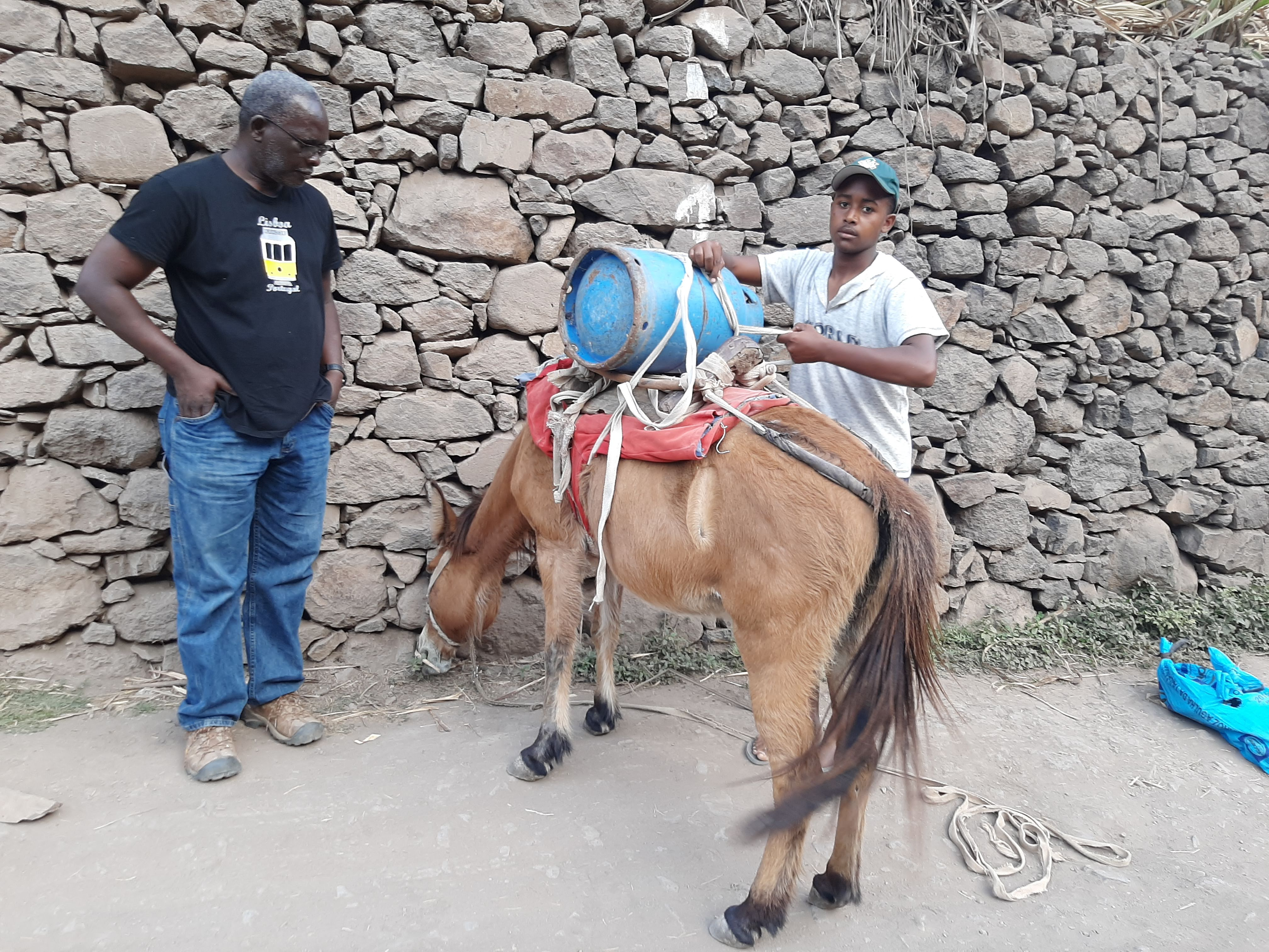 This is an image with the theme "Africa on the Move or Transport" from: Cape Verde